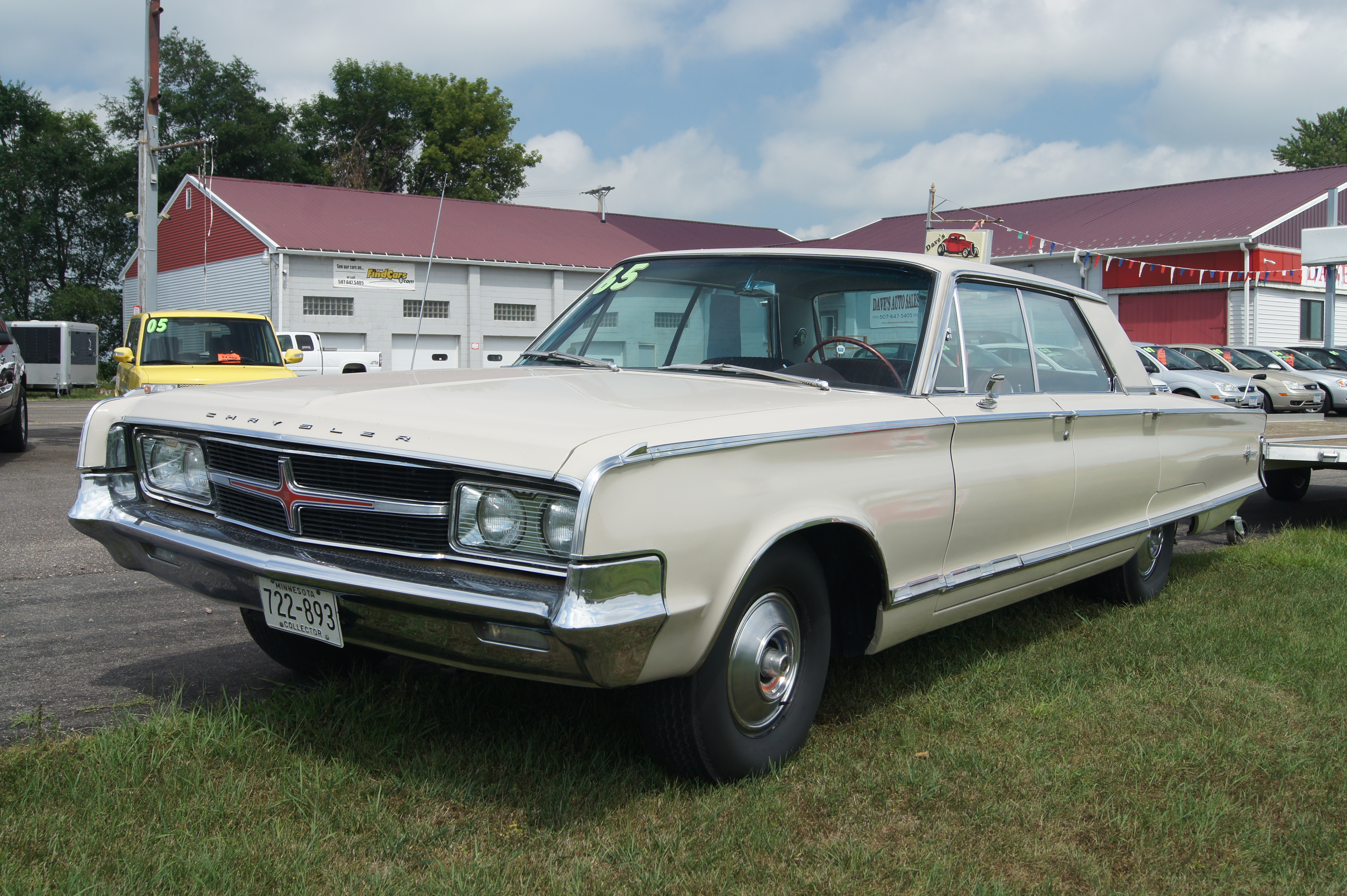 21,000 Miles 2nd Owner